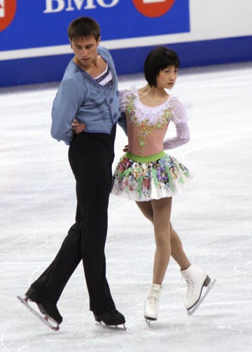 2008 Skate Canada; Yuko Kawaguchi and Alexander Smirnov;FS